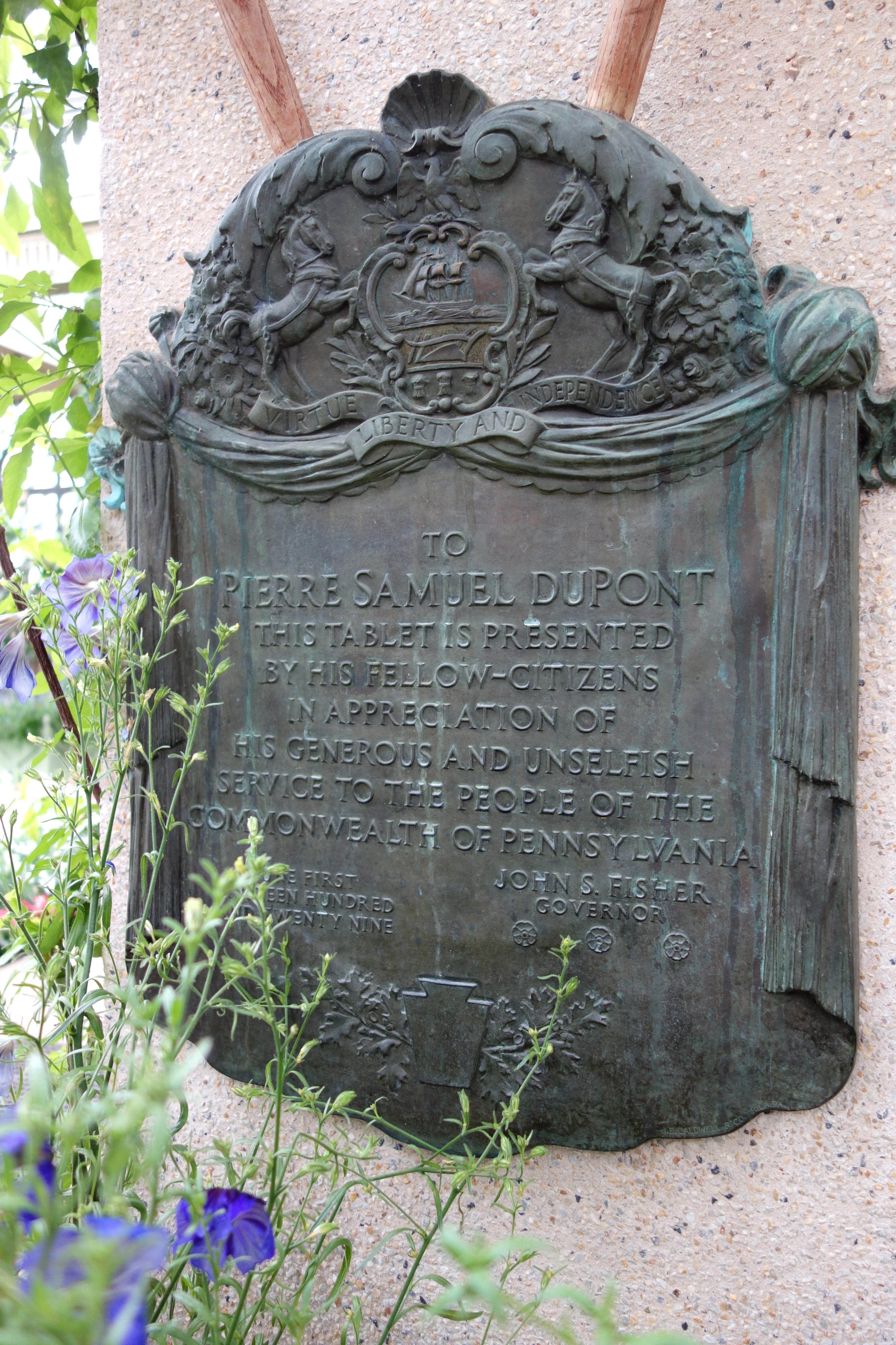 Plaque honoring Pierre Samuel du Pont, in the Conservatory - Longwood Gardens, 1001 Longwood Rd, Kennett Square, Pennsylvania, USA.